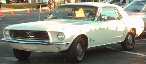 Ford Mustang photographed in Montreal, Quebec, Canada at Gibeau Orange Julep.